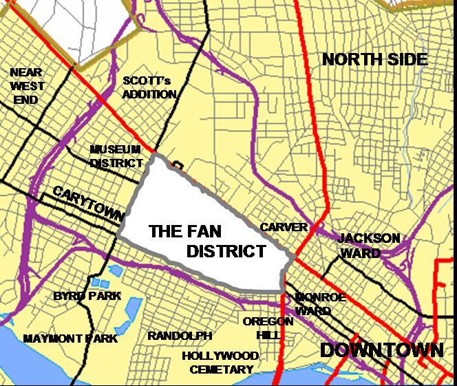 Created by User:MPS using TIGER MAP tool at the US census bureau page. Titles were added by author using MS Powerpoint and MS Paint.